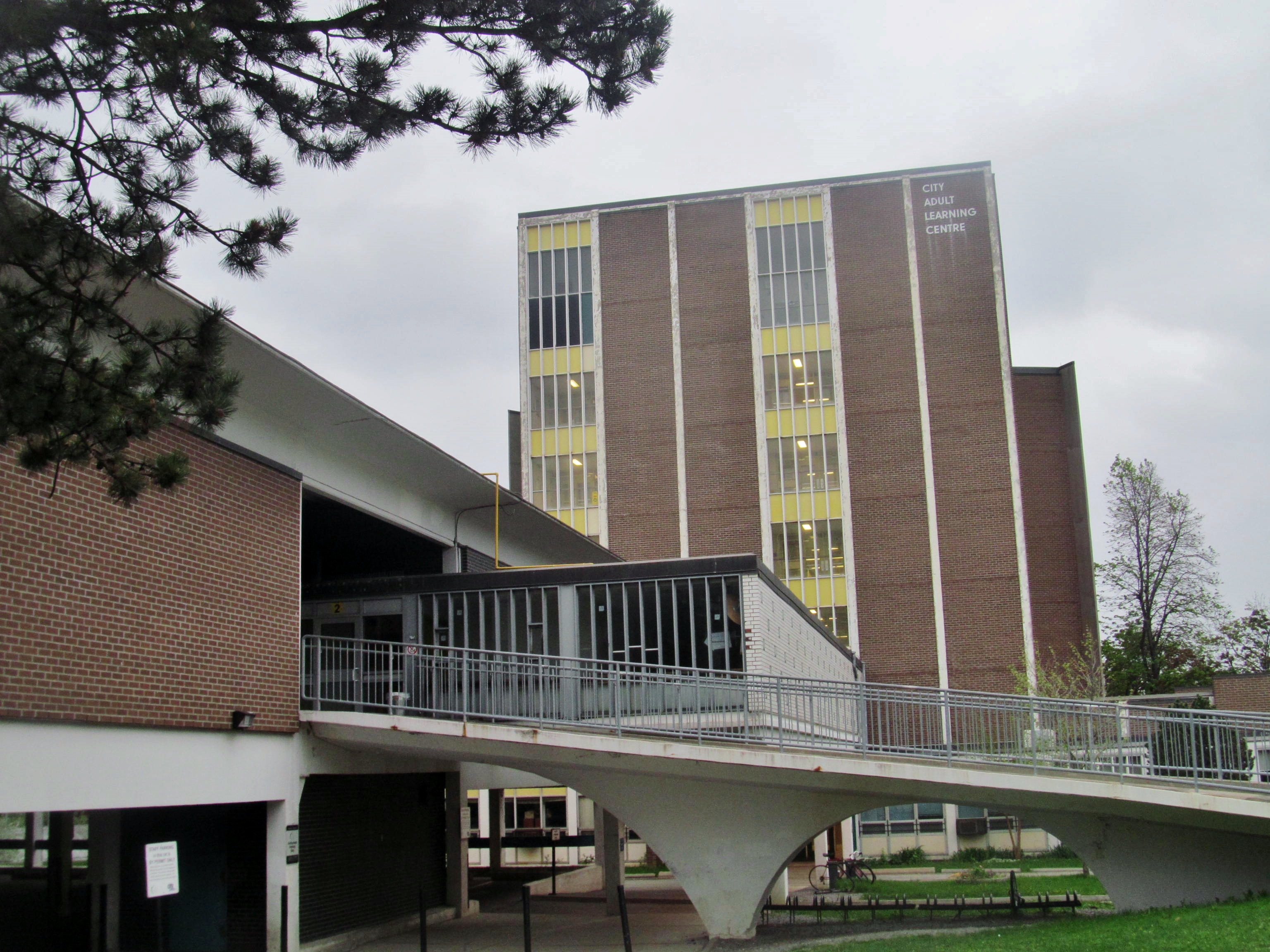 The side view of City Adult Learning Centre (built as Parkway Vocational School and Parkview Secondary School) from a TTC subway train in March 2015.